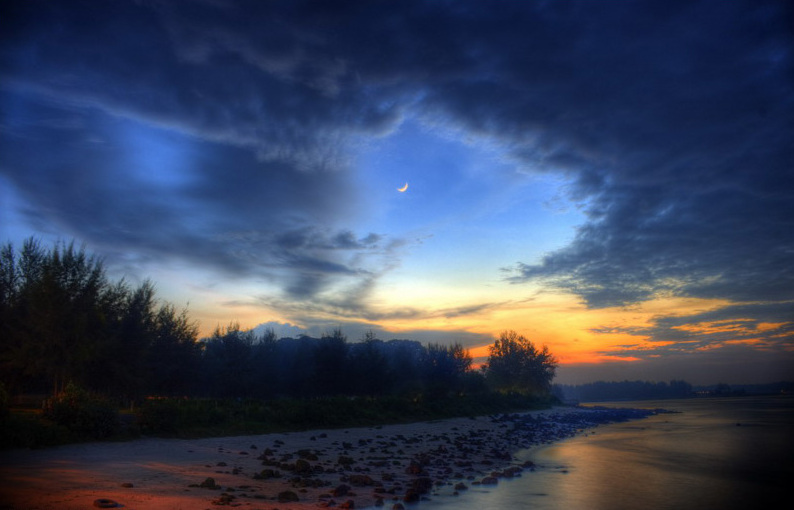 The crescent moon seen through clouds at sunset beside the mouth of the Sungei Serangoon (Serangoon River) at Punggol, Singapore.